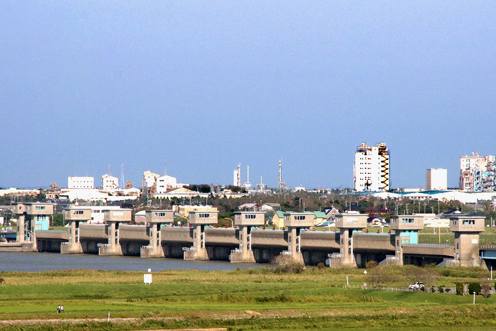 Estuary weir of Tone River, Japan. 利根川河口堰